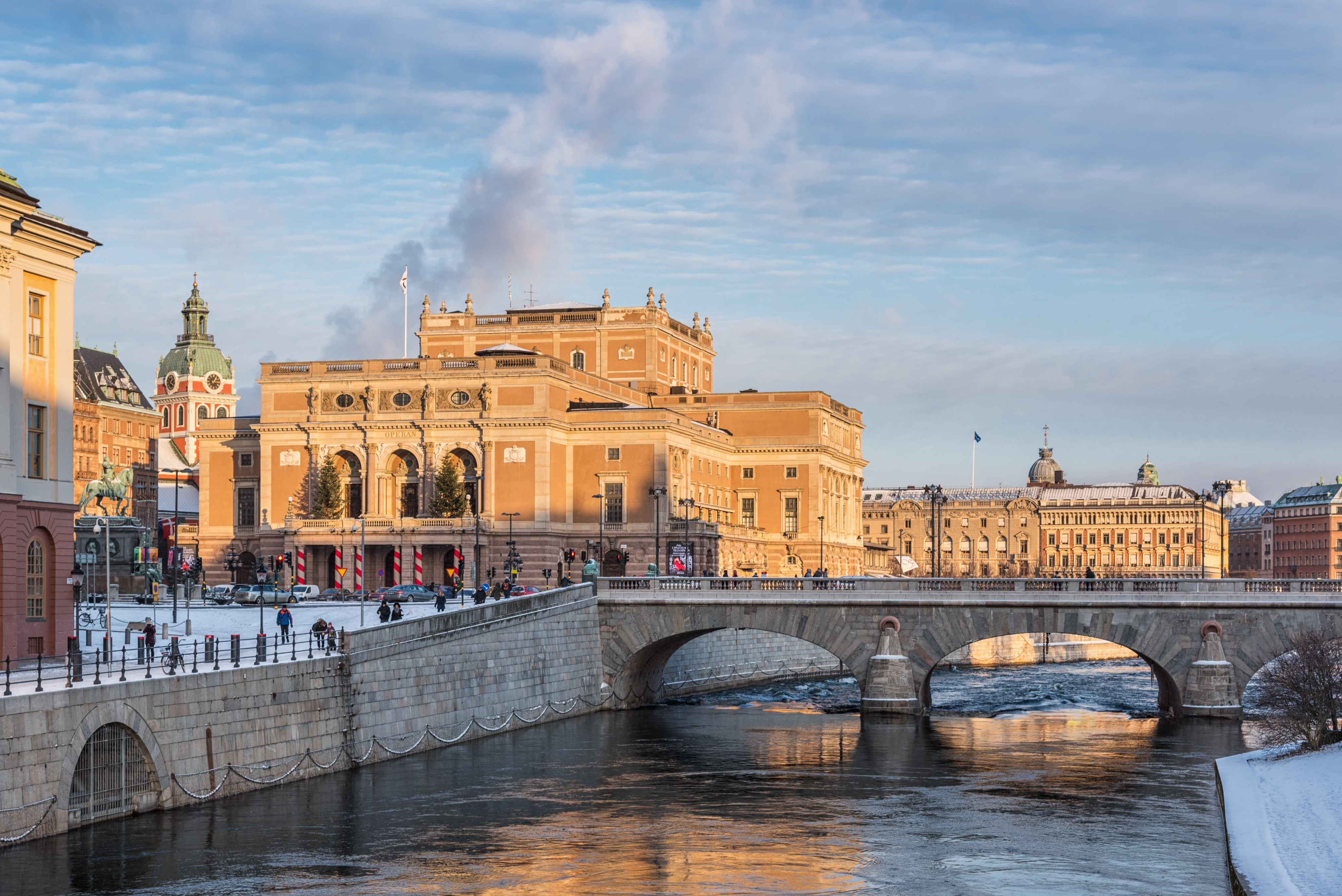 Kungliga Operan (Royal Swedish Opera) in Stockholm.